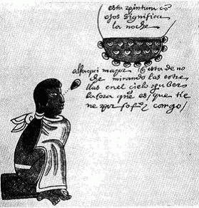 Tlamatini observe stars (Codex Mendoza)